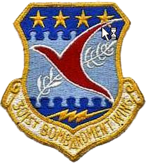 Emblem of the USAF 301st Bombardment Wing